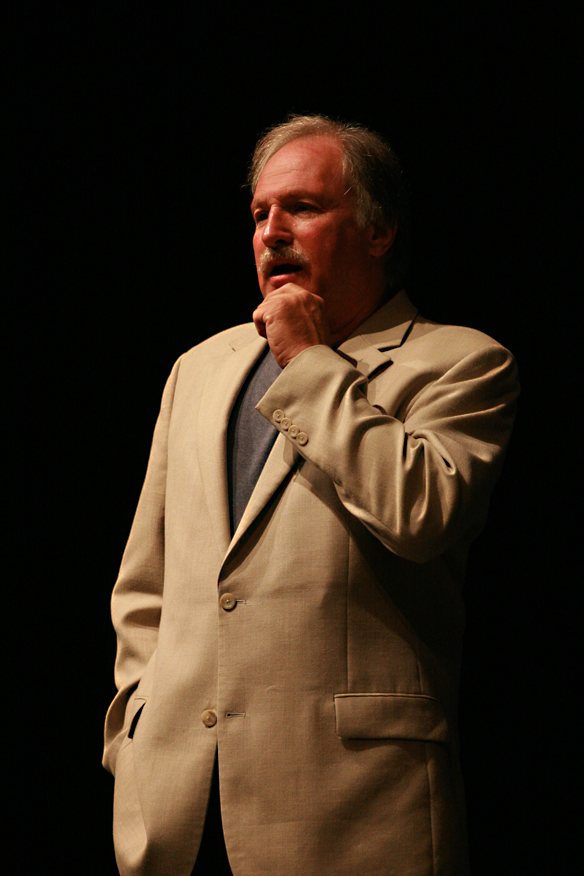 Life...Consciousness and the Nature of the Universe